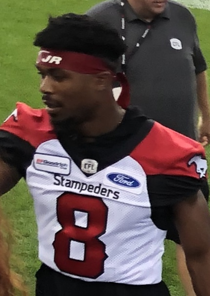 DaShaun Amos, defensive back for the Calgary Stampeders.